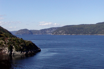 Photo of Saguenay River looking upstream from south shore mouth